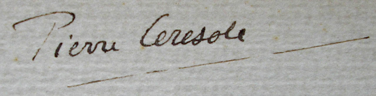 Signature of Pierre Ceresole (1879-1945) in his own copy from his book Les forces de l'esprit : Ralph-Waldo Emerson 1803-1882 (La Chaux-de-Fonds : Imprimerie coopérative, 1930)